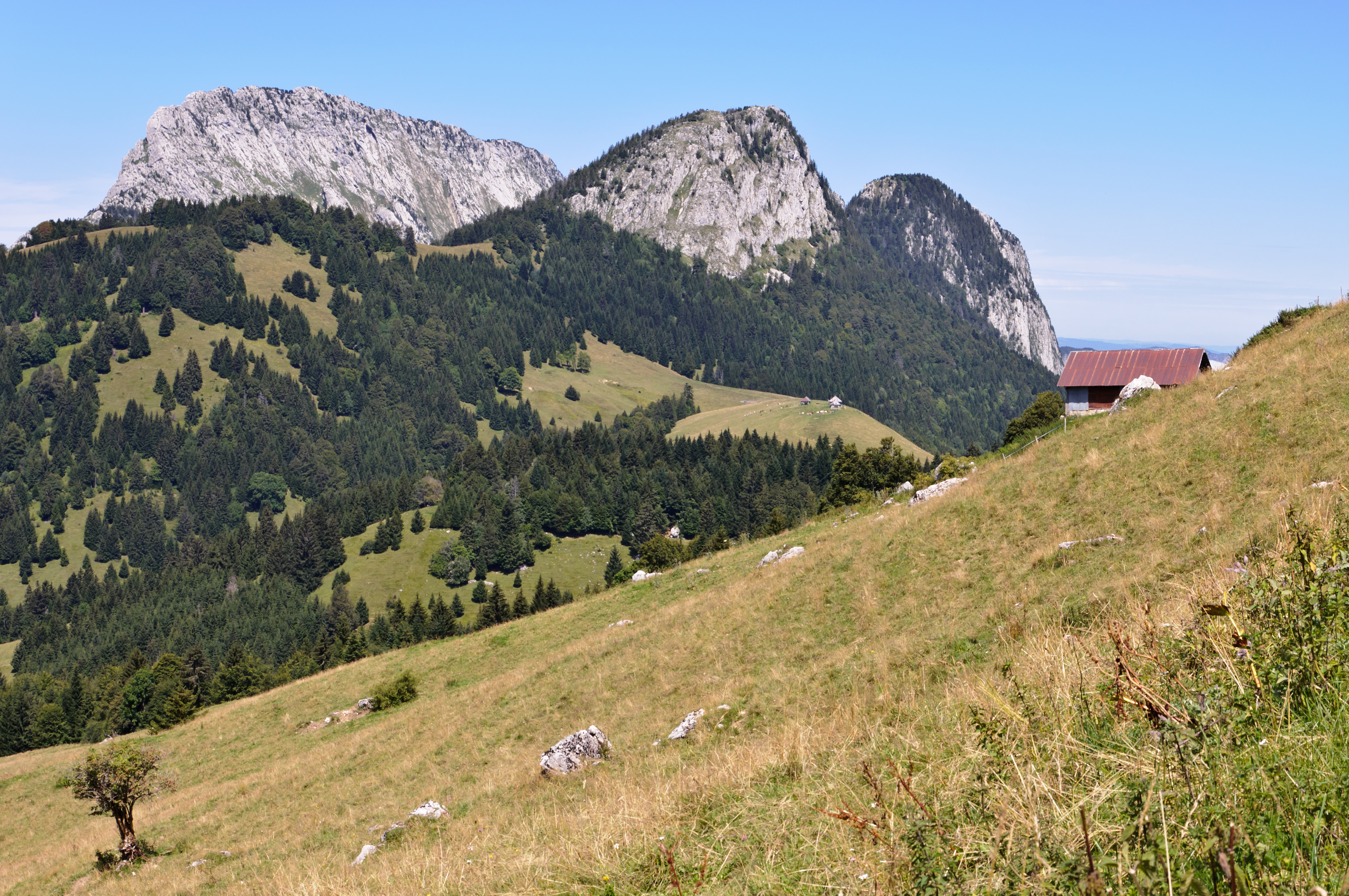 Roc des Boeufs and Crêt du Char in the Regional Natural Park of the Bauges Mountains, Savoie and Haute-Savoie, France.